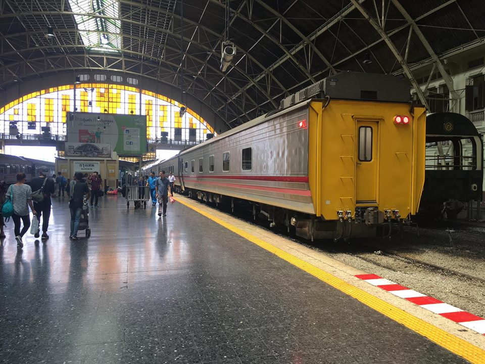 Thaksinarat (Bangkok-Hatyai) in Bangkok Railway Station.